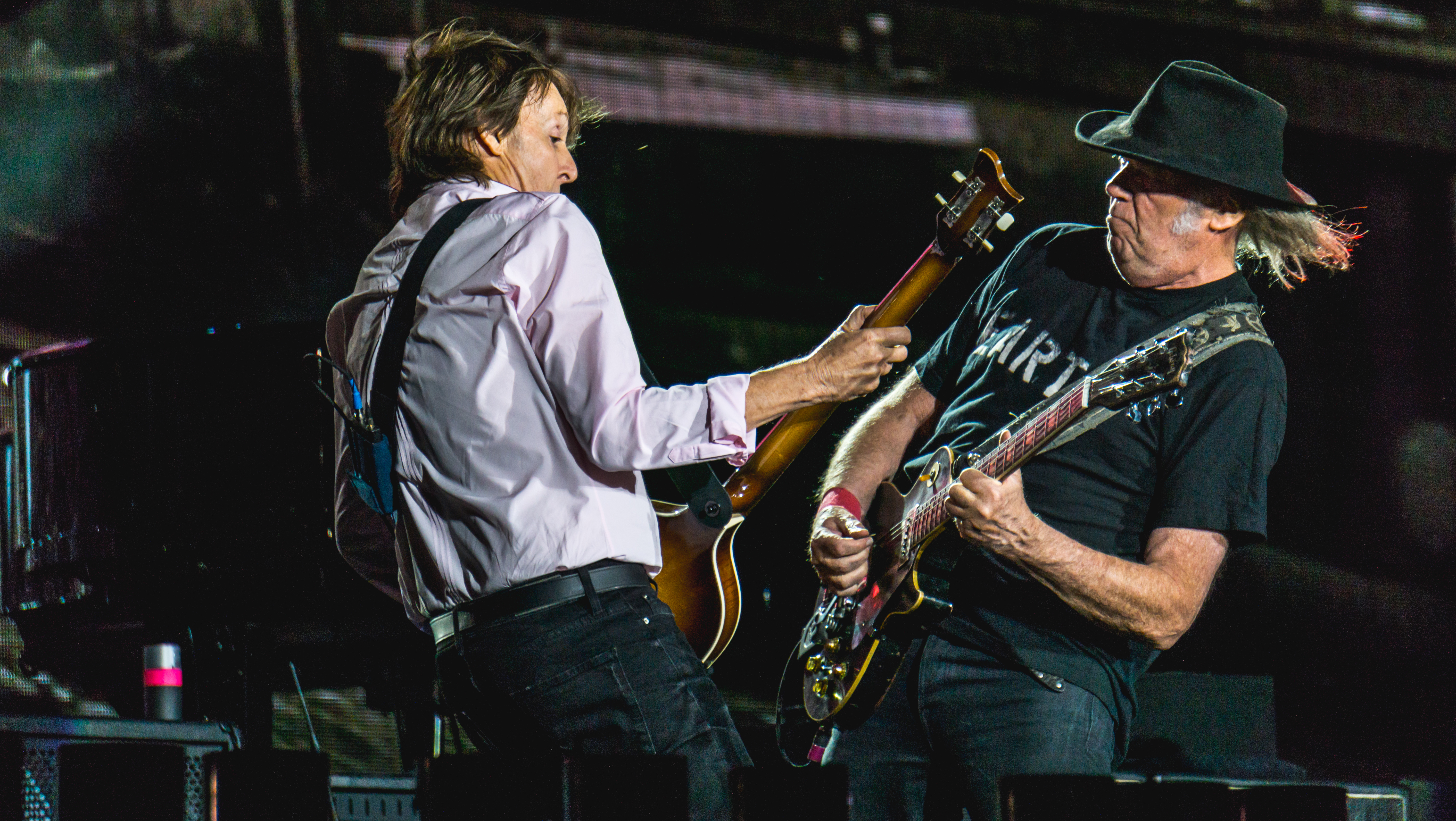 A performance by Paul McCartney on October 8, 2016 from the music festival Desert Trip, held at the Empire Polo Club